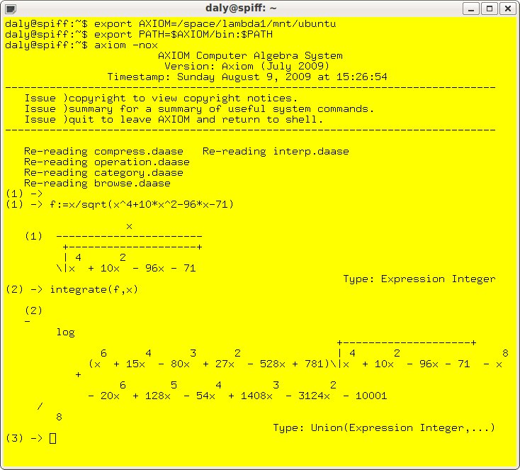 Axiom performing the Risch Integration